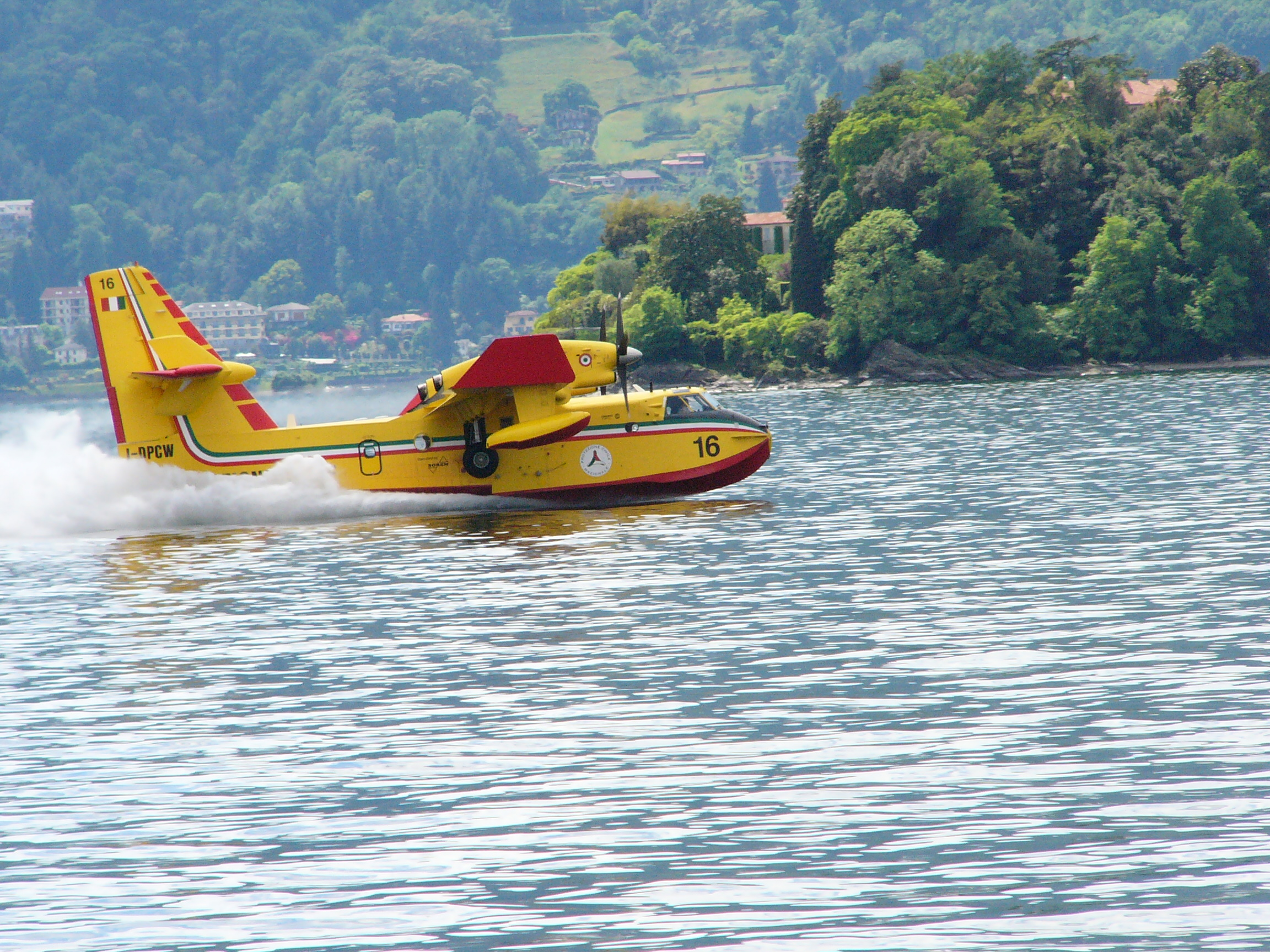 Canadair CL-415 demonstration, at Verbania (Ali sul lago maggiore, Verbania, Italy)